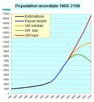 World population from 1800 to 2100, based on UN 2013 projections and US Census Bureau historical estimates (1800-1950).